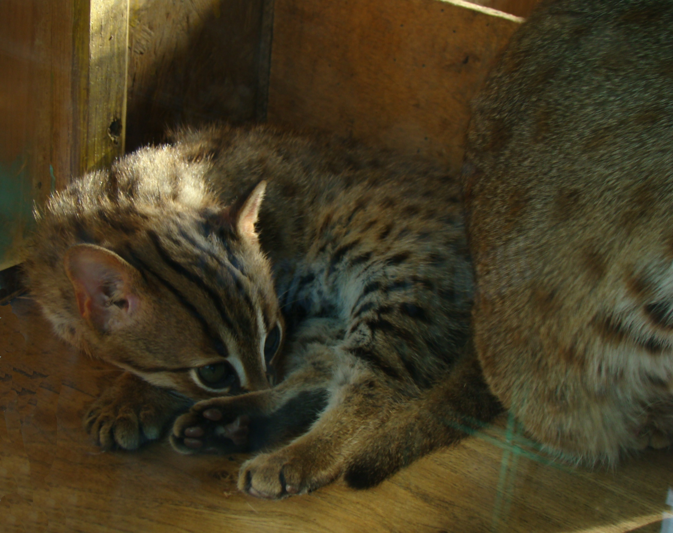 Young Rusty-Spotted Cat (Prionailurus rubiginosus), Parc des félins, France.